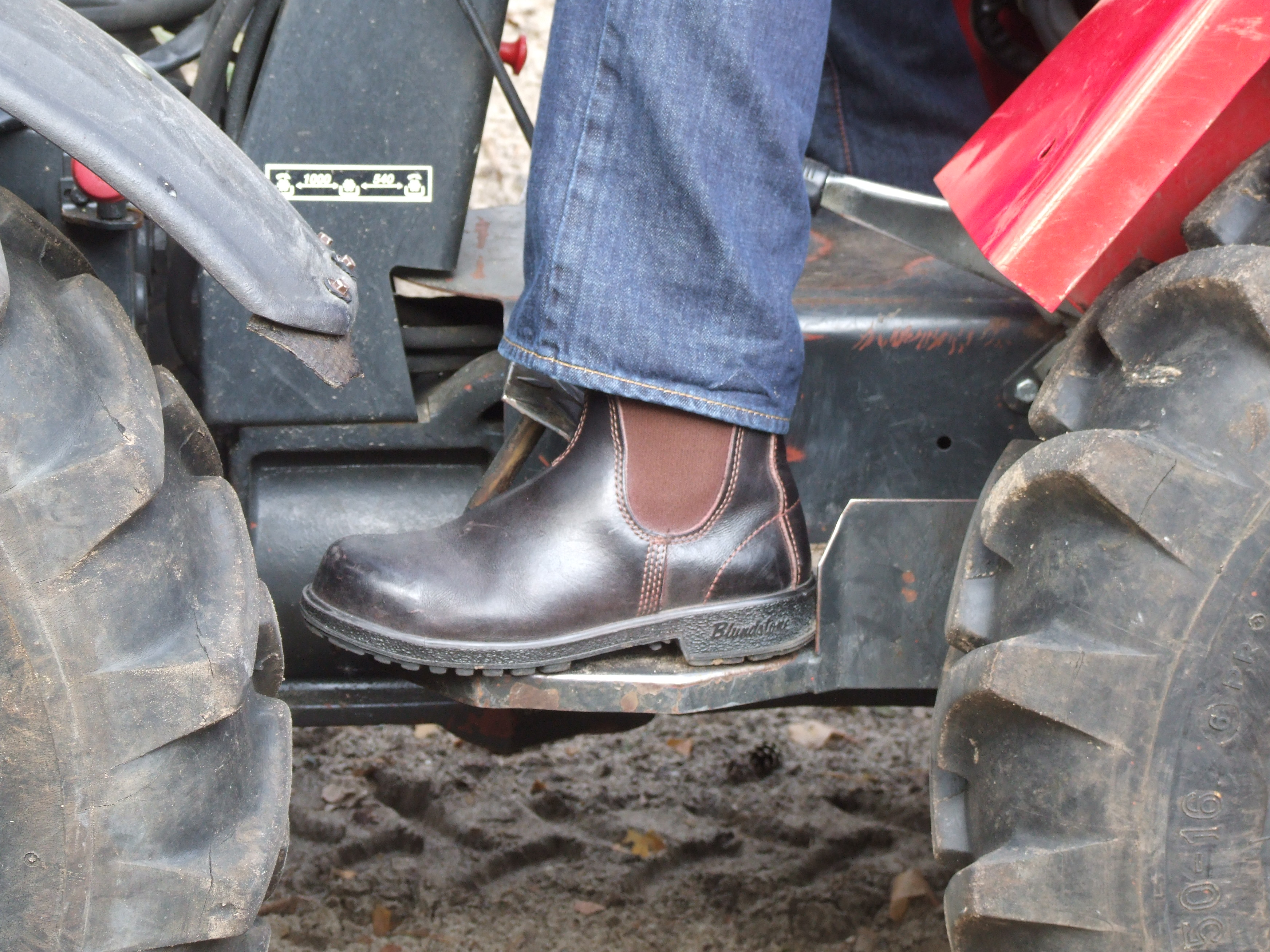 Blundstone safety workwear mod. 302